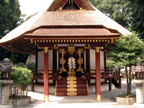 Funeral hall at the Yoshida shrine